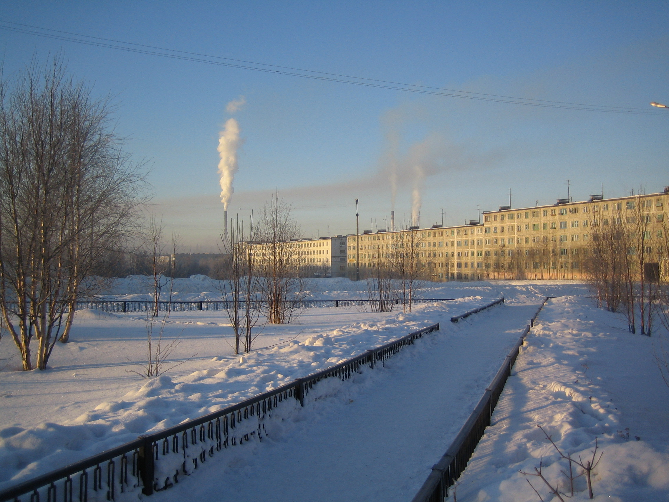 Kovdor in winter.